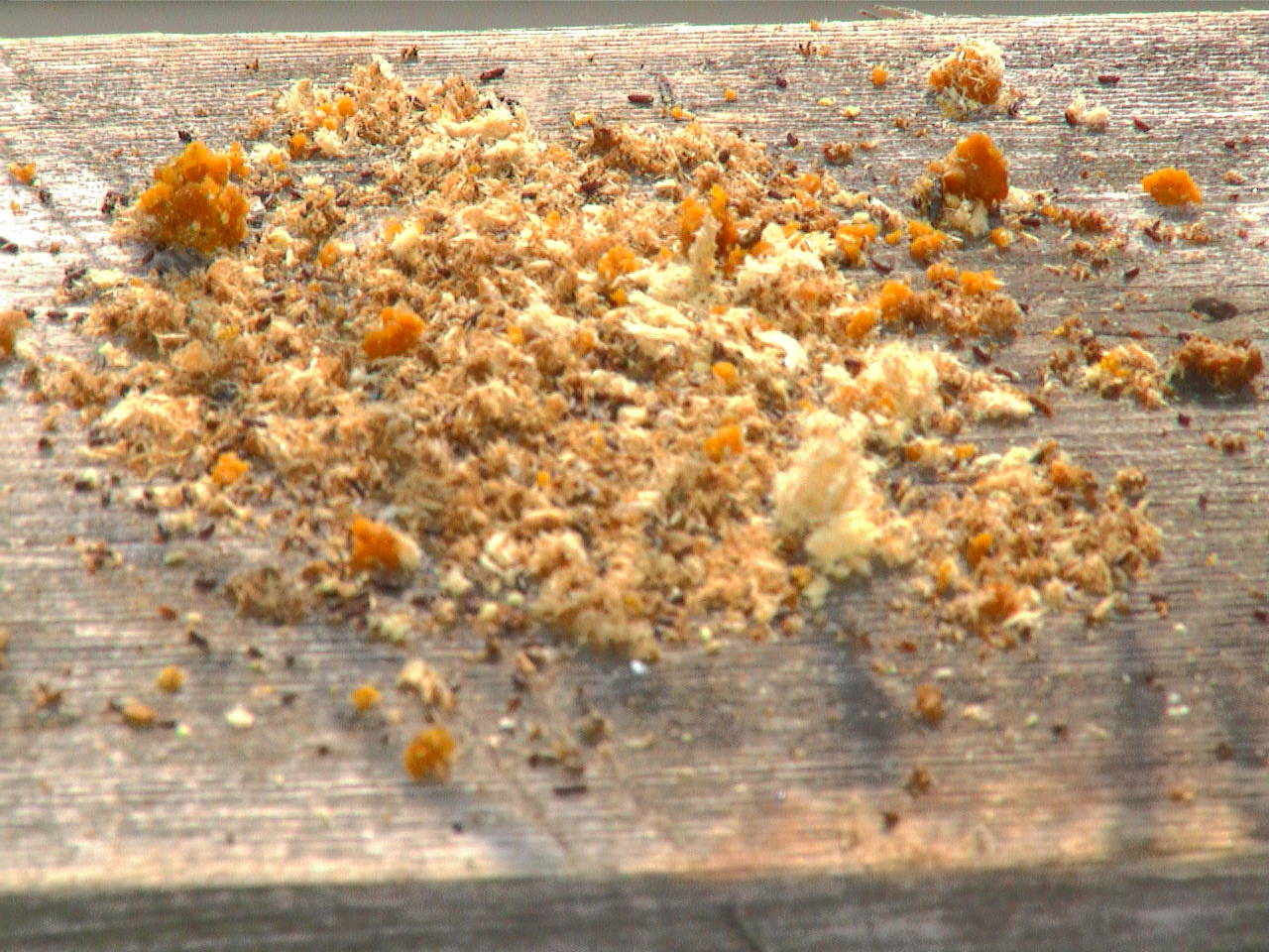 PixOnTrax